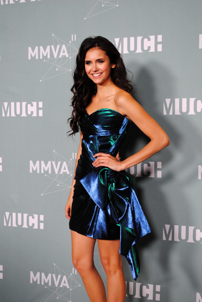 Nina Dobrev at the 2011 MuchMusic Video Awards